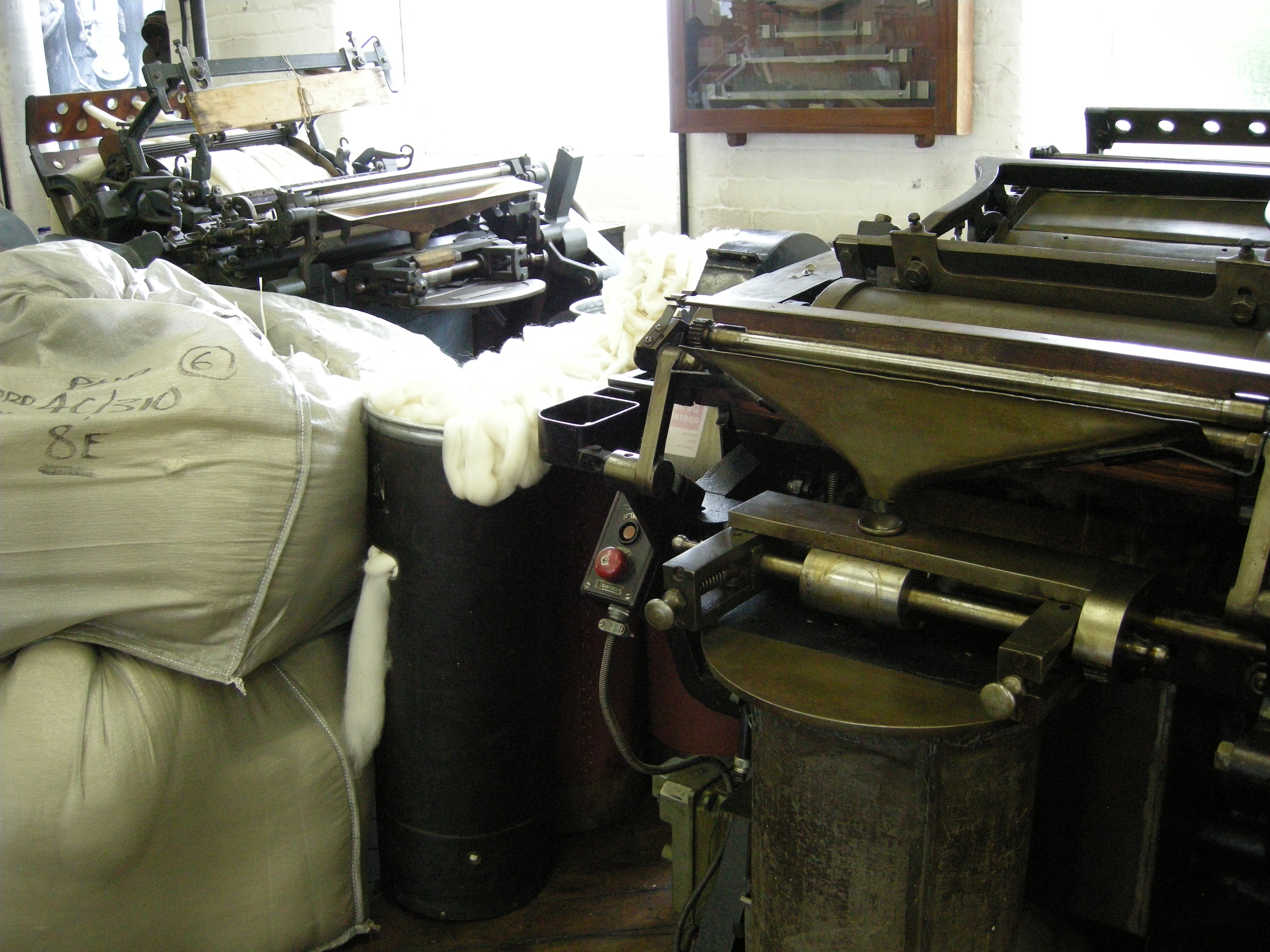 Spinning machines at Bradford Industrial Museum, Bradford, West Yorkshire, England. 53.48'.40".N; 1.43'.16".W.